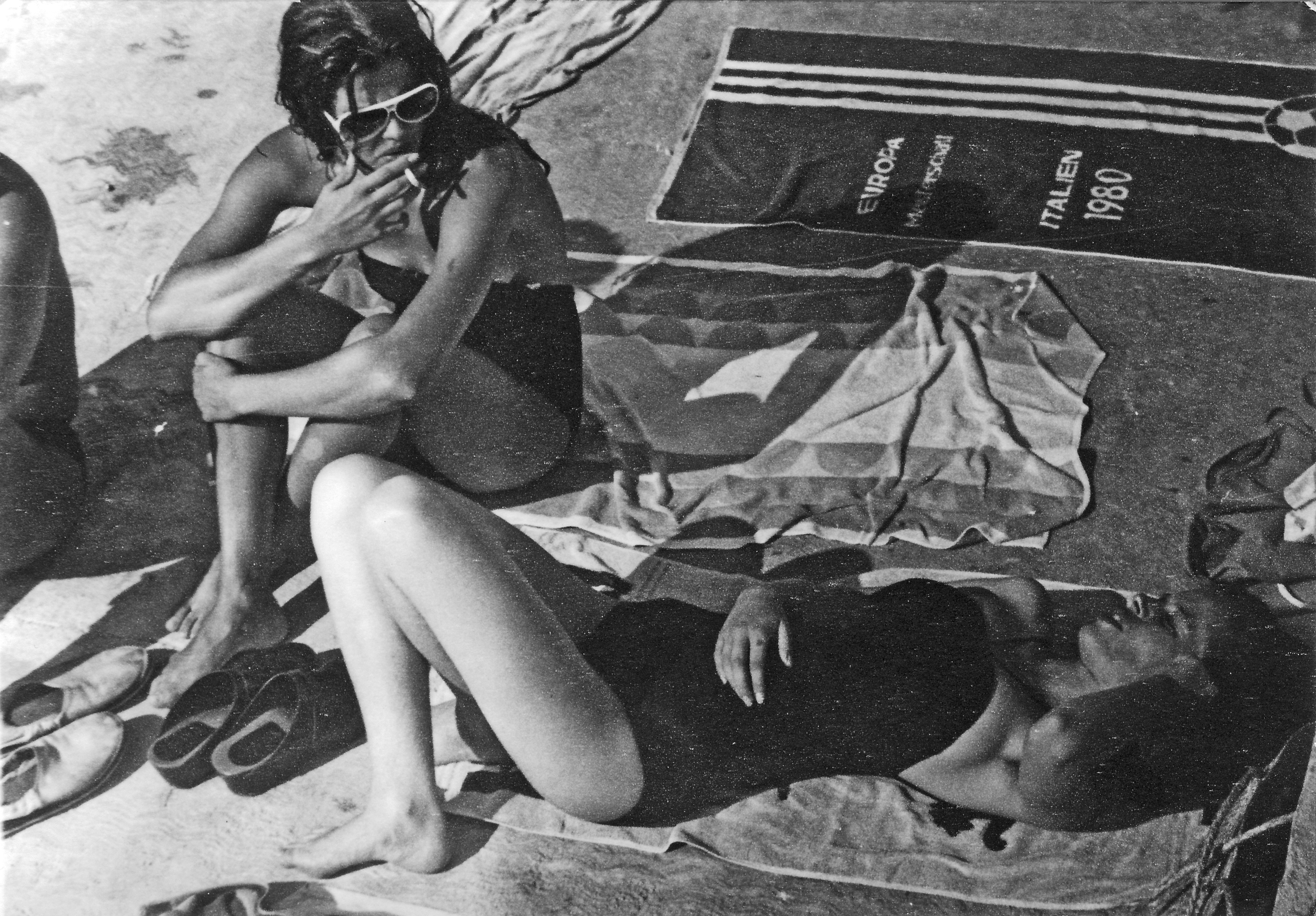 Ena and Mia Begović during the Pula Film Festival, early 80s